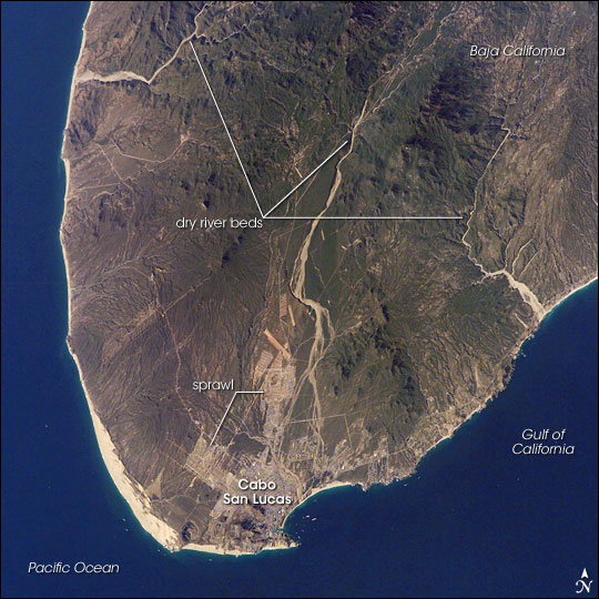 Annotated image of Cabo San Lucas, Mexico, taken from the International Space Station.